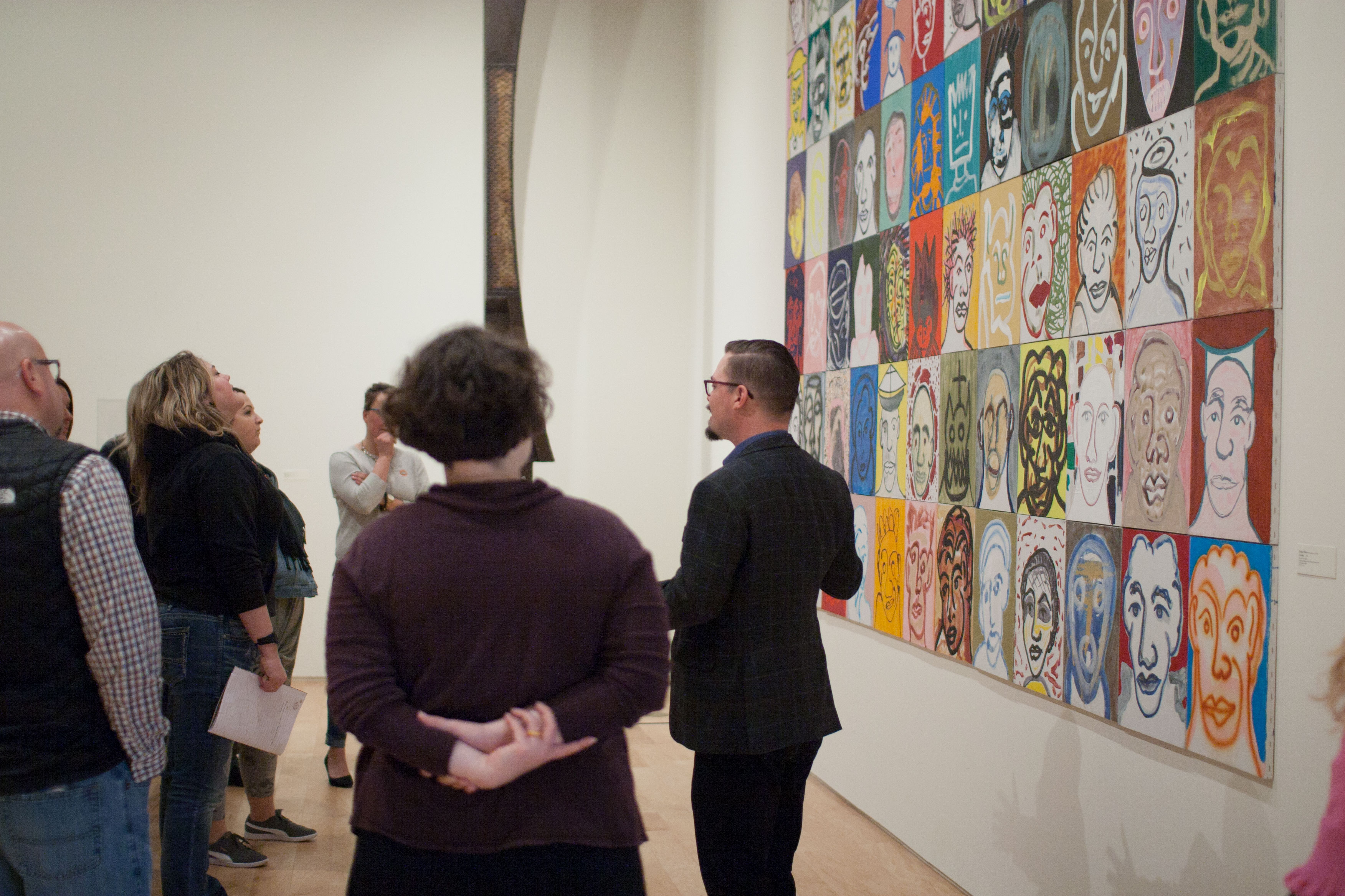 Dennos Permanent Exhibition Gallery Adult Tour at the Dennos Museum